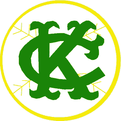 The logo for the Kansas City Athletics baseball team from 1963 to 1967